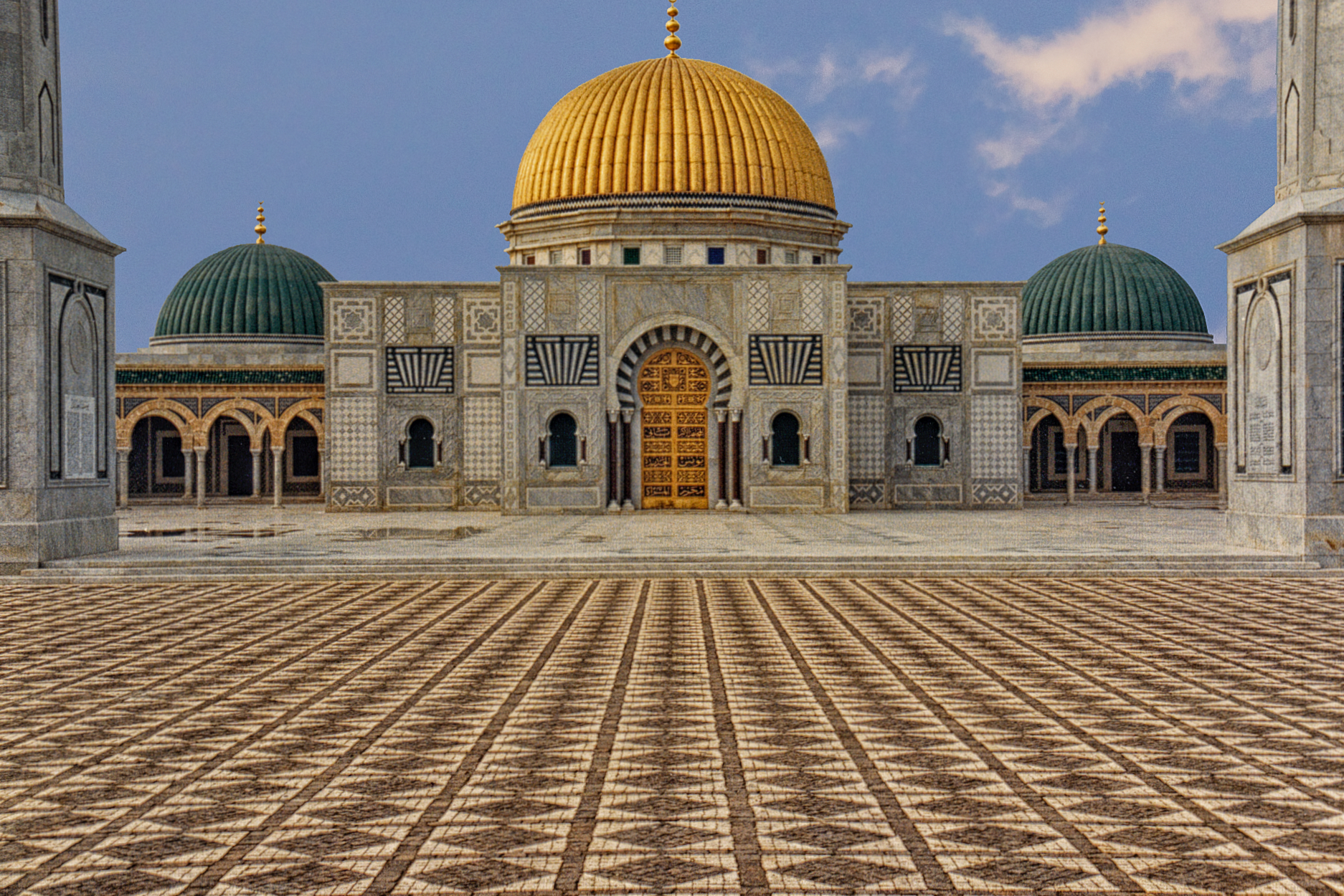 The Bourguiba Mausoleum sits on the northern edge of Monastir cemetery. Its opulent splendour, topped with a golden dome, is a tribute to Tunisia's first president, Habib Bourguiba after independence from the French. Built in 1963, this burial mosque holds the bodies of the ex-President as well as his family. Two 25 m slender minarets are made of Italian marble, while the facade is covered with beautifully delicate tiling work. The tomb of Bourguiba itself sits amid a dazzling interior of glass-inlay and underneath a spectacular chandelier.